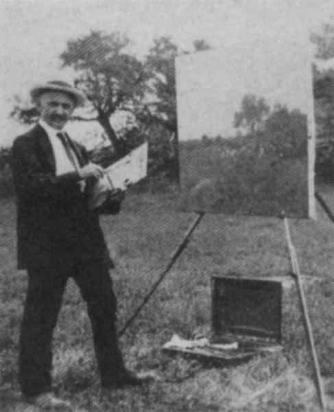 Charles_Paul_Grupppé_in_Katwijk_aan_het_werk